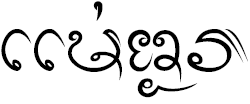 Lanna script – Mae On is a district (amphoe) of Chiang Mai Province in the north of Thailand.